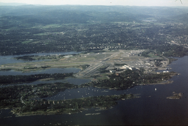 Aerial view of Oslo Airport, Fornebu